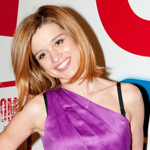 Ksenia Borodina on March 20, 2011 at the premiere of "Office Romance: Our Time"